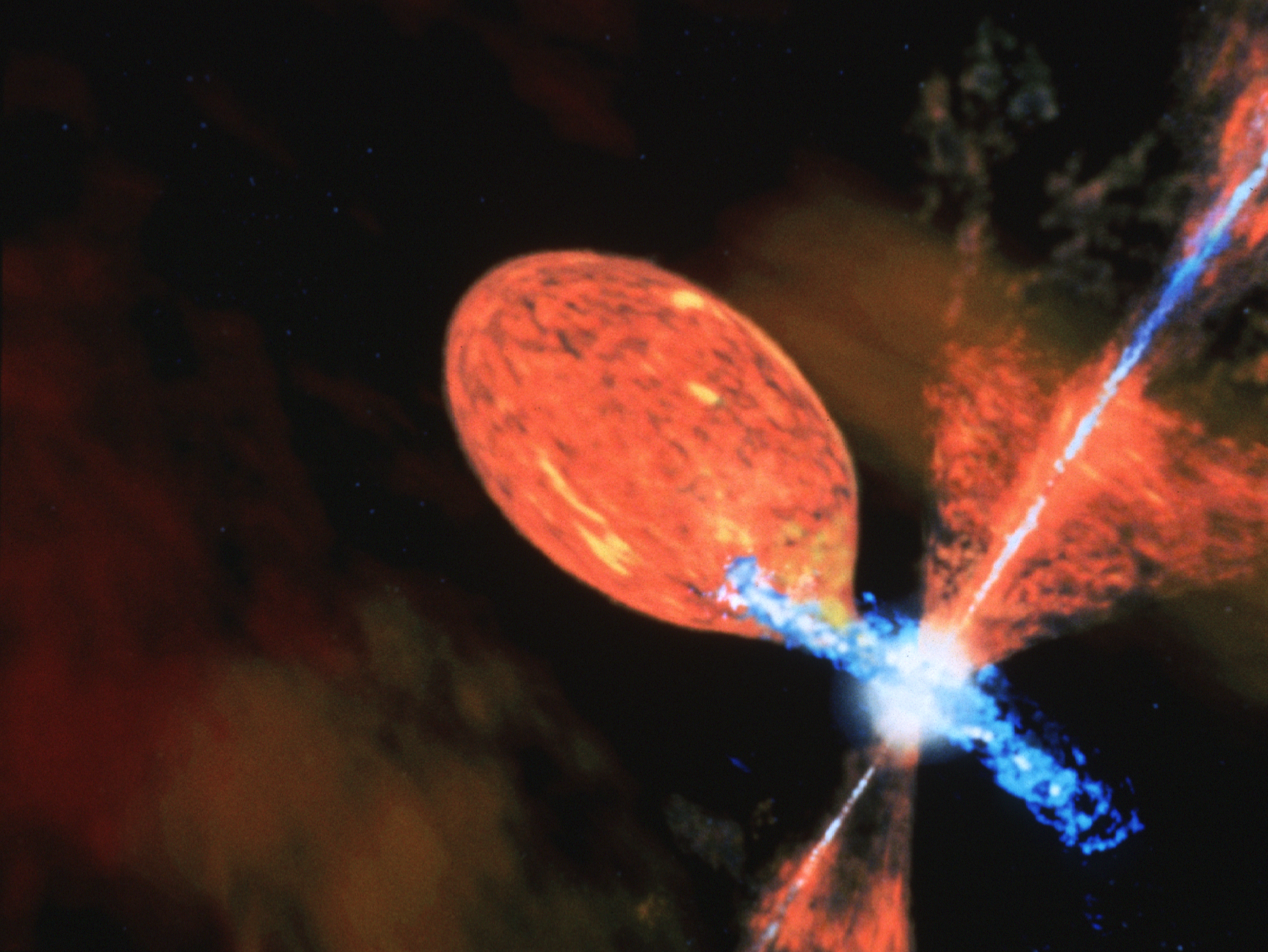 A 3D Rendering of the star R Aquarii, a symbiotic star, during an outburst.